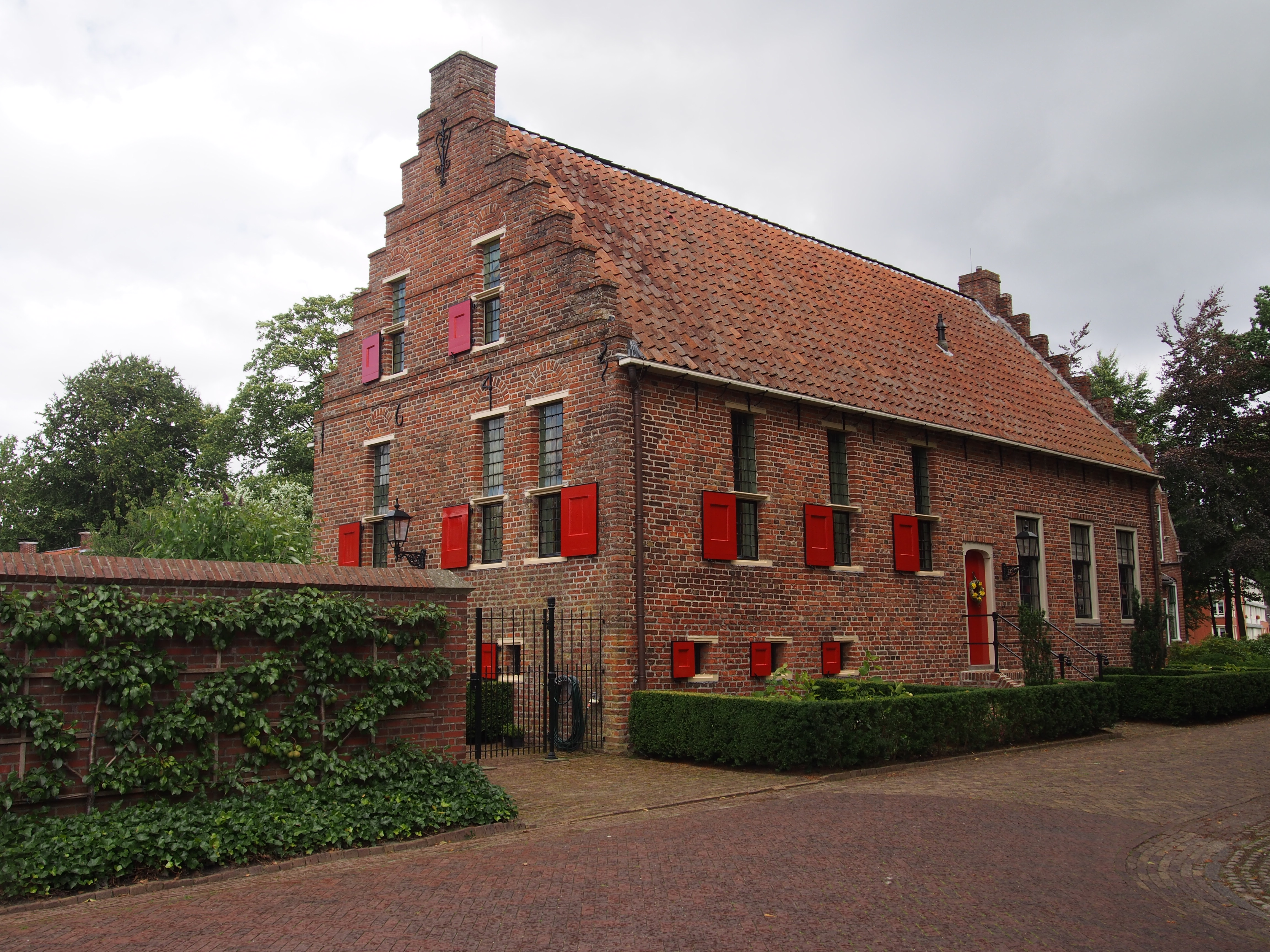 Het Rechthuis te Bellingwolde